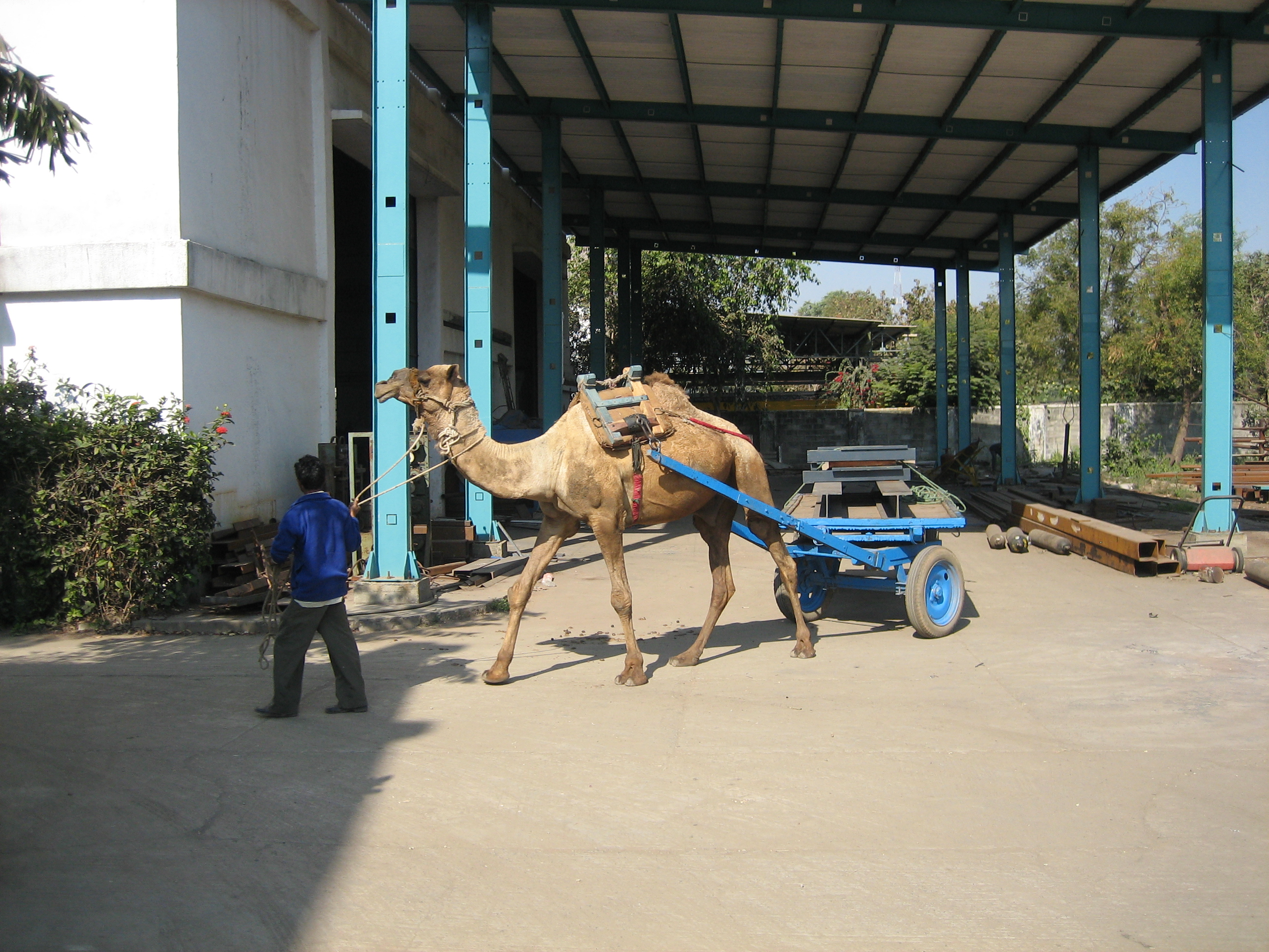 "one camel power", Ahmedabad, January 2007